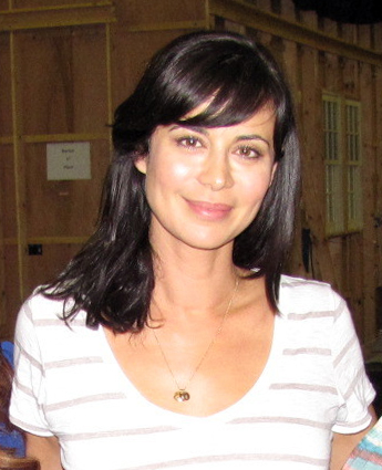 Minnesota Army wives Andrea Curely, Samantha Koktan and Tammy Estes pose with Catherine Bell, who plays Denise Sherwood on Lifetime's "Army Wives", during a visit to the set in Charleston, S.C., Feb. 24.